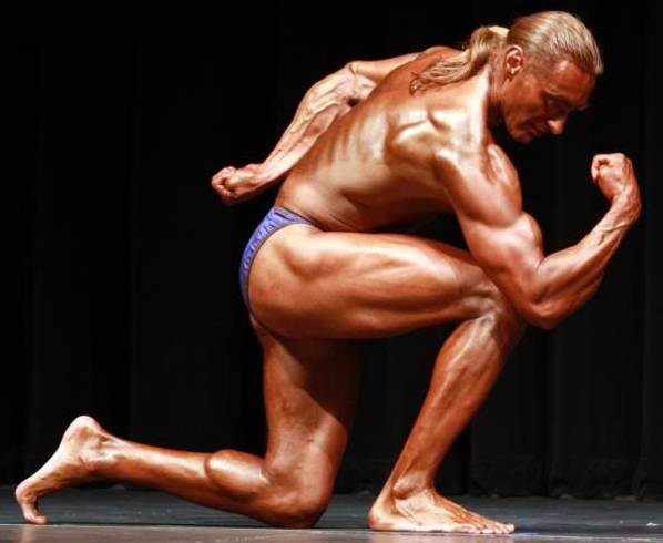 Robert Cheeke at a natural bodybuilding competition at Clackamas high school in Oregon.